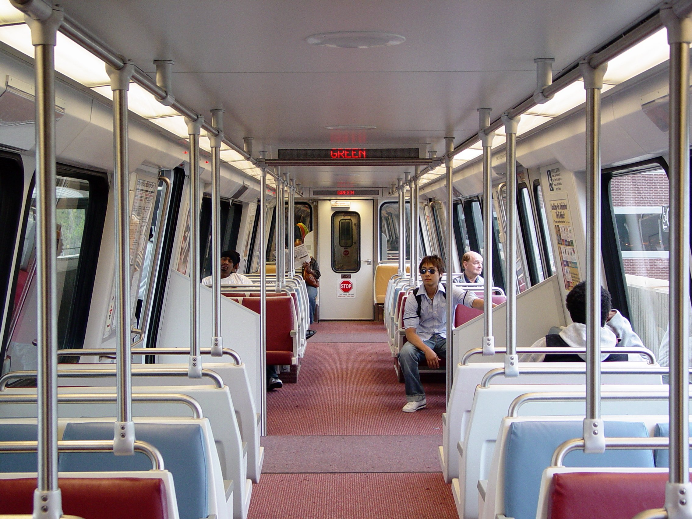 Interior of Alstom 6026 on the Washington Metro.